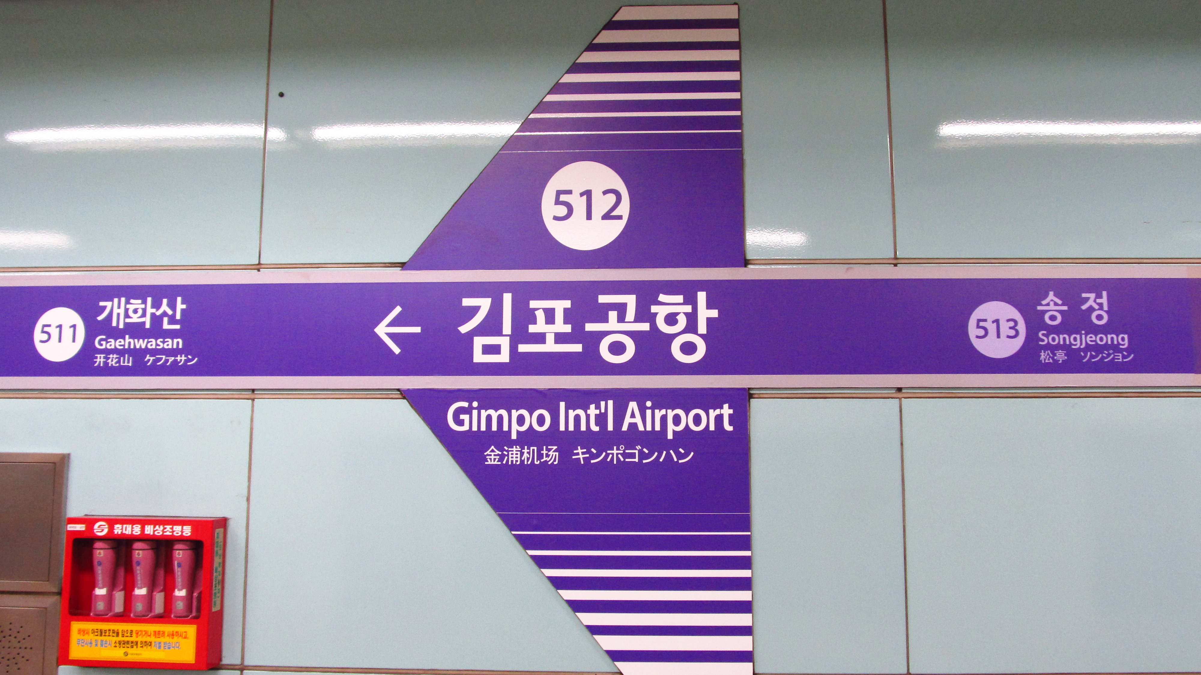 A sign of Gimpo International Airport Station on Seoul Subway Line 5